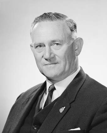 A 1963 black and white portrait of David Brand, Premier of Western Australia